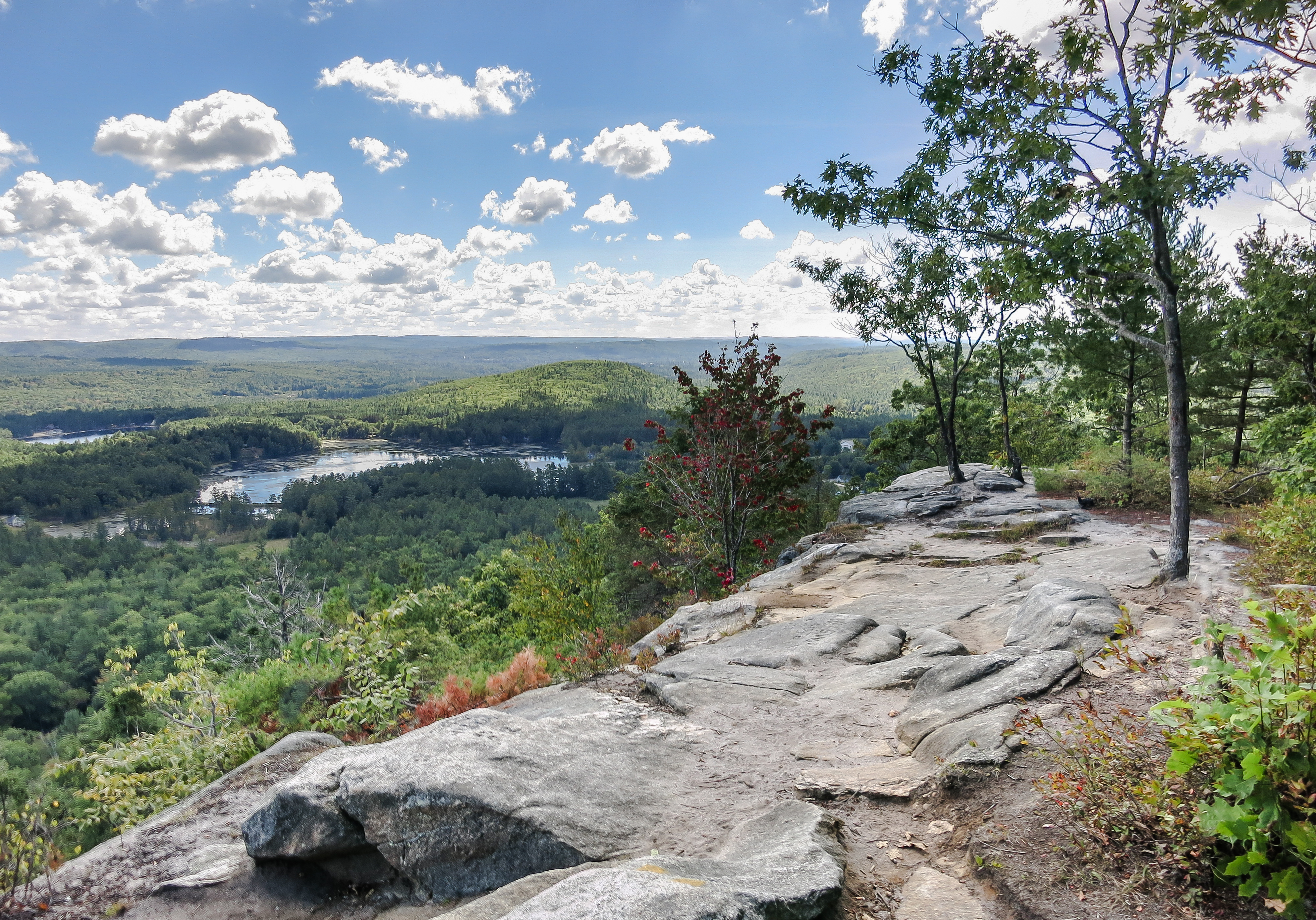 View of Tully and Packard Ponds